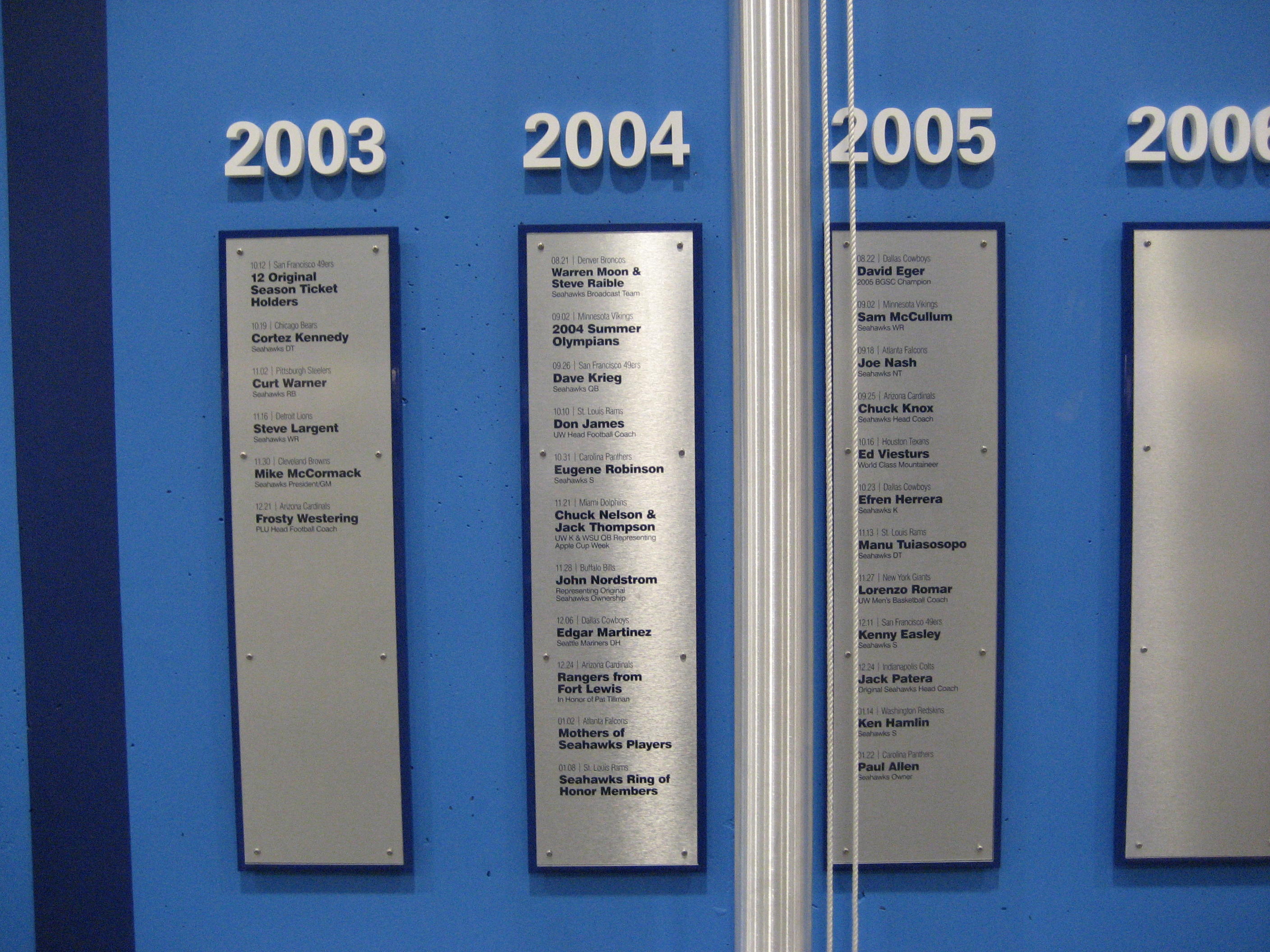 Close up of those who've hoisted the 12th Man Flag. 2003: 12 Original Season Ticket Holders, Cortez Kennedy, Curt Warner, Steve Largent, Mike McCormack, Frosty Westering. 2004: Warren Moon & Steve Raible, 2004 Summer Olympians, Dave Krieg, Don James, Eugene Robinson, Chuck Nelson & Jack Thompson, John Nordstrom, Edgar Martinez, Rangers from Fort Lewis, Mothers of Seahawks Players, Seahawks Ring of Honor Members. 2005: David Eger, Sam McCullum, Joe Nash, Chuck Knox, Ed Viesturs, Efren Herrera, Manu Tuiasosopo, Lorenzo Romar, Kenny Easley. Jack Patera, Ken Hamlin, Paul Allen.